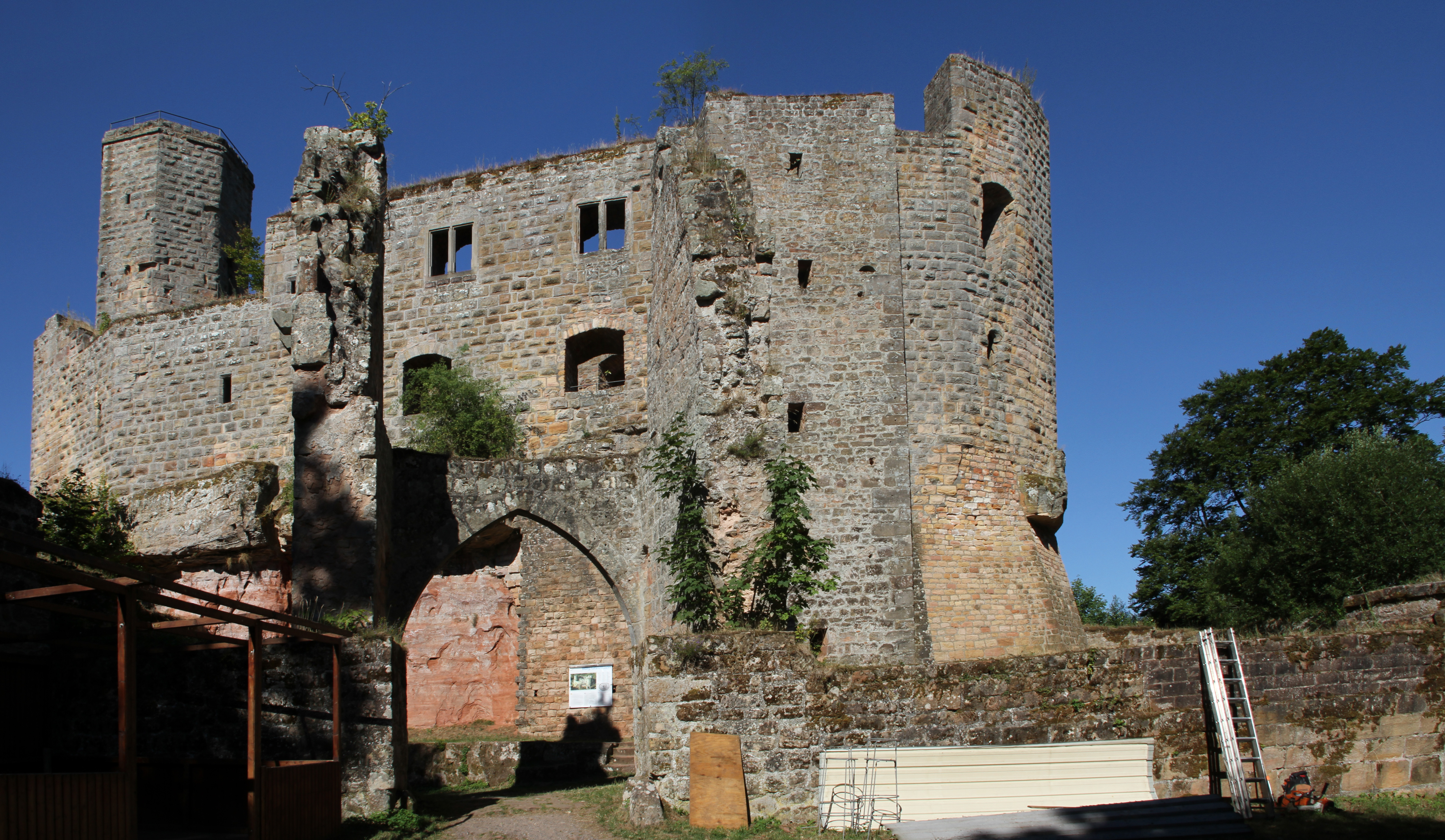 Gräfenstein Castle nearby Merzalben/Germany.